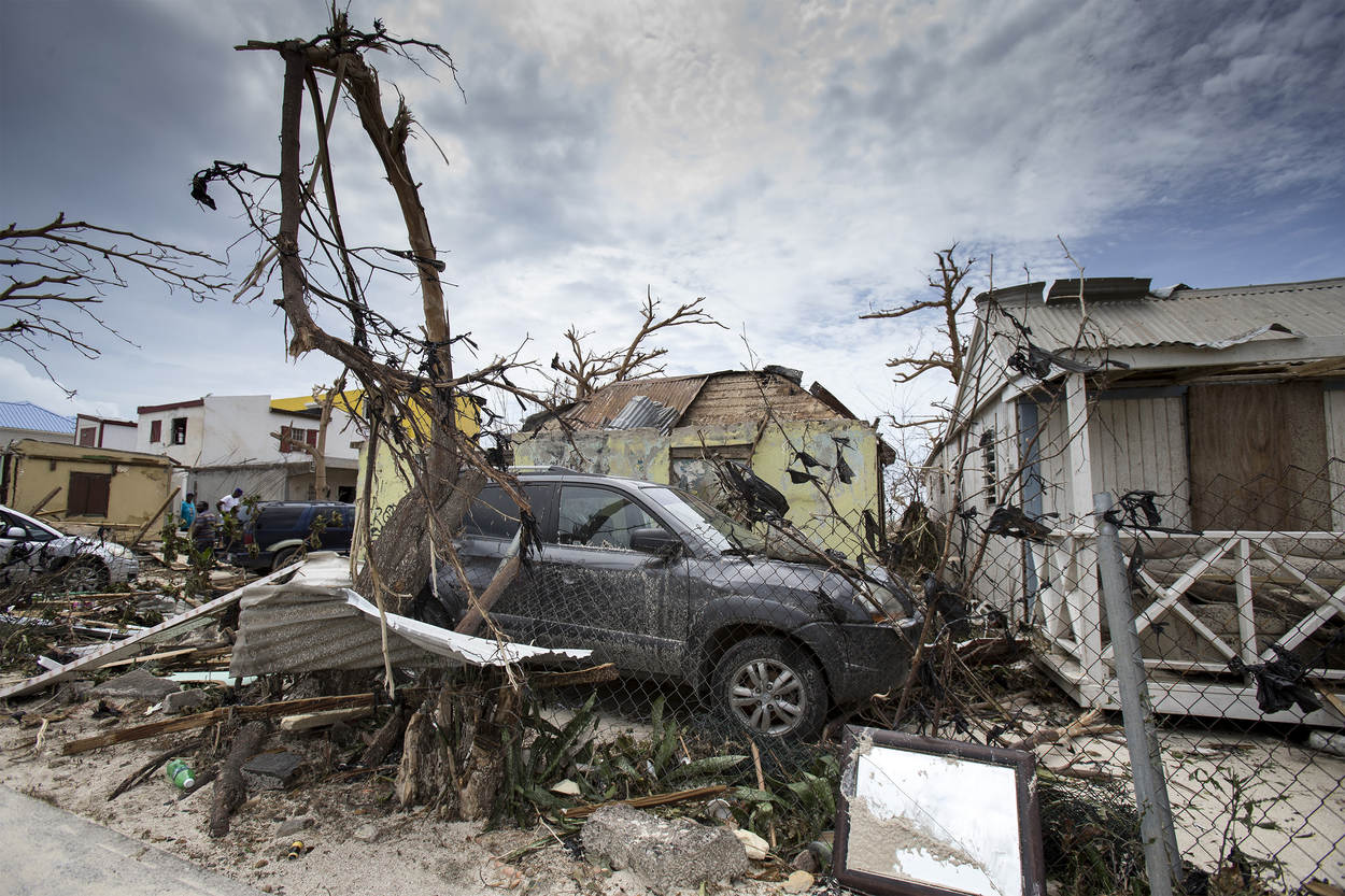 Hurricane Irma on Sint Maarten (NL) - starting to clean up operation afterwards